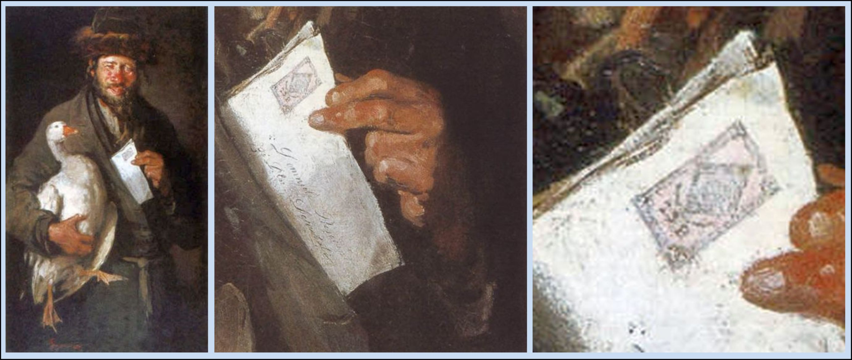 Evreu cu gâscă - detalii - un evreu român care deține o petiție și o gâscă pentru dare de mită. Lucrarea, expusă la salonul din Paris în 1880, este una dintre cele mai importante ale pictorului. Este unul dintre tablourile de dimensiuni mari, în care pitorescul personajului se împleteşte cu caracterizarea psihologică. Dacă, de obicei, portretele lui Grigorescu sunt lucrate în tuşă lisă, de aceasta dată sunt folosite pete largi, distincte, astfel încât volumele sunt realizate fin în faţete. Semnat jos spre mijloc-stânga, cu roşu: „Grigorescu”.